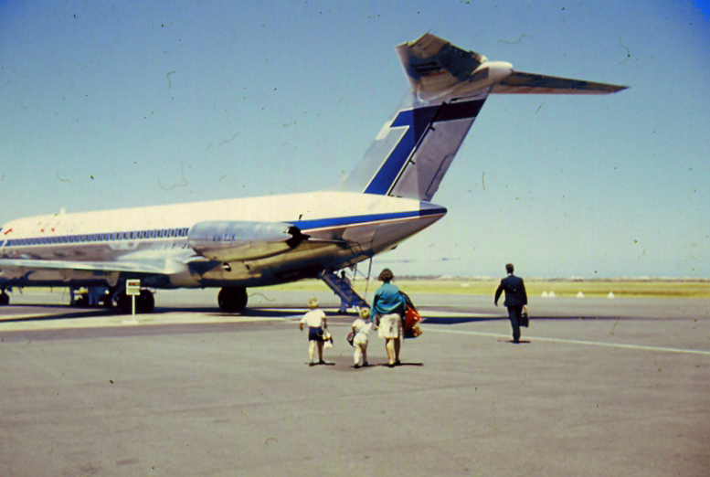 Passengers boarding DC-9-31 VH-TJK Trans Australian Airline flight at Adelaide Airport